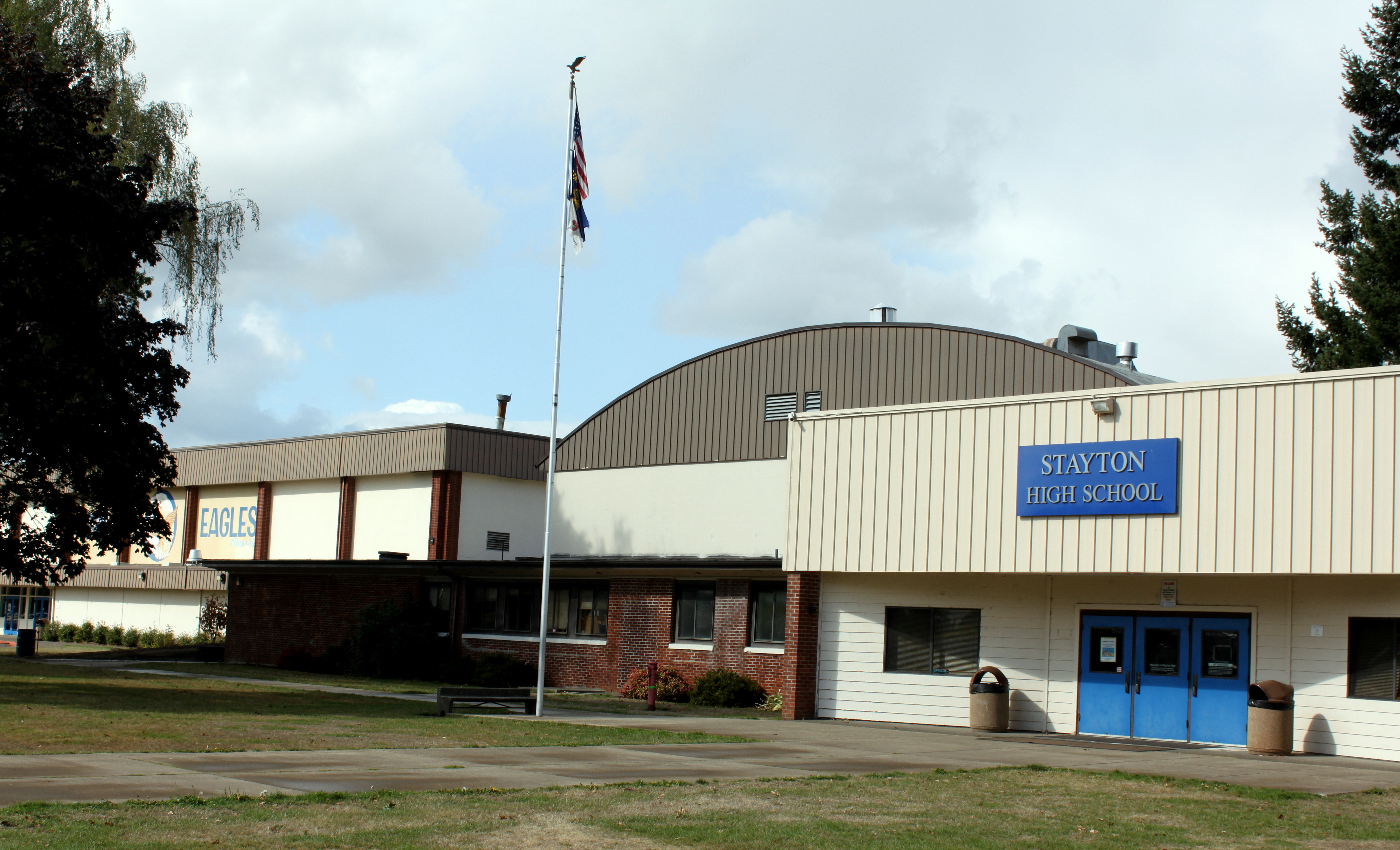 Stayton High School main entrance in Stayton, Oregon.